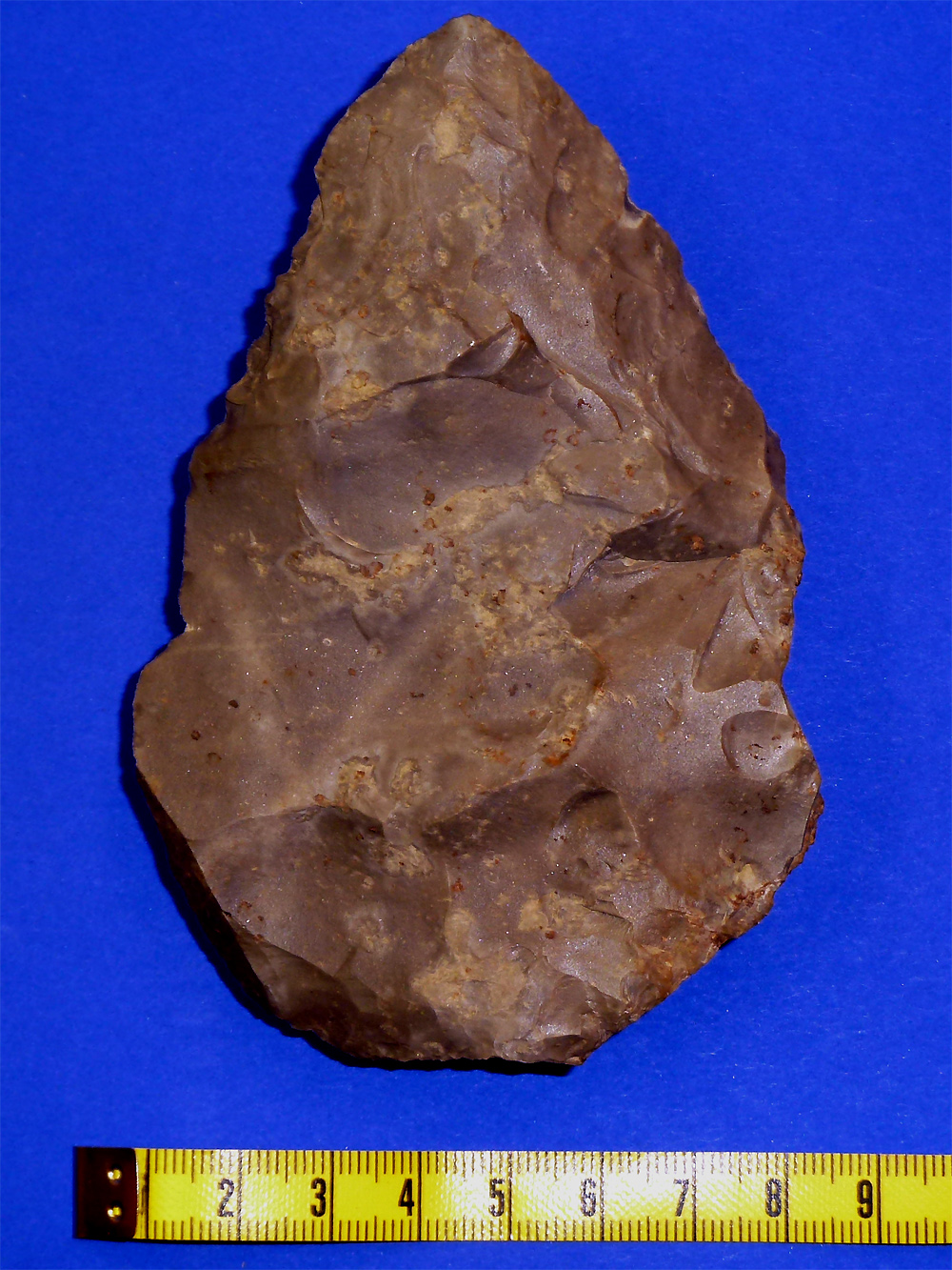 Paleolithic biface (Wommersom quartzite) Collection Gallo Romeins Museum Tongeren